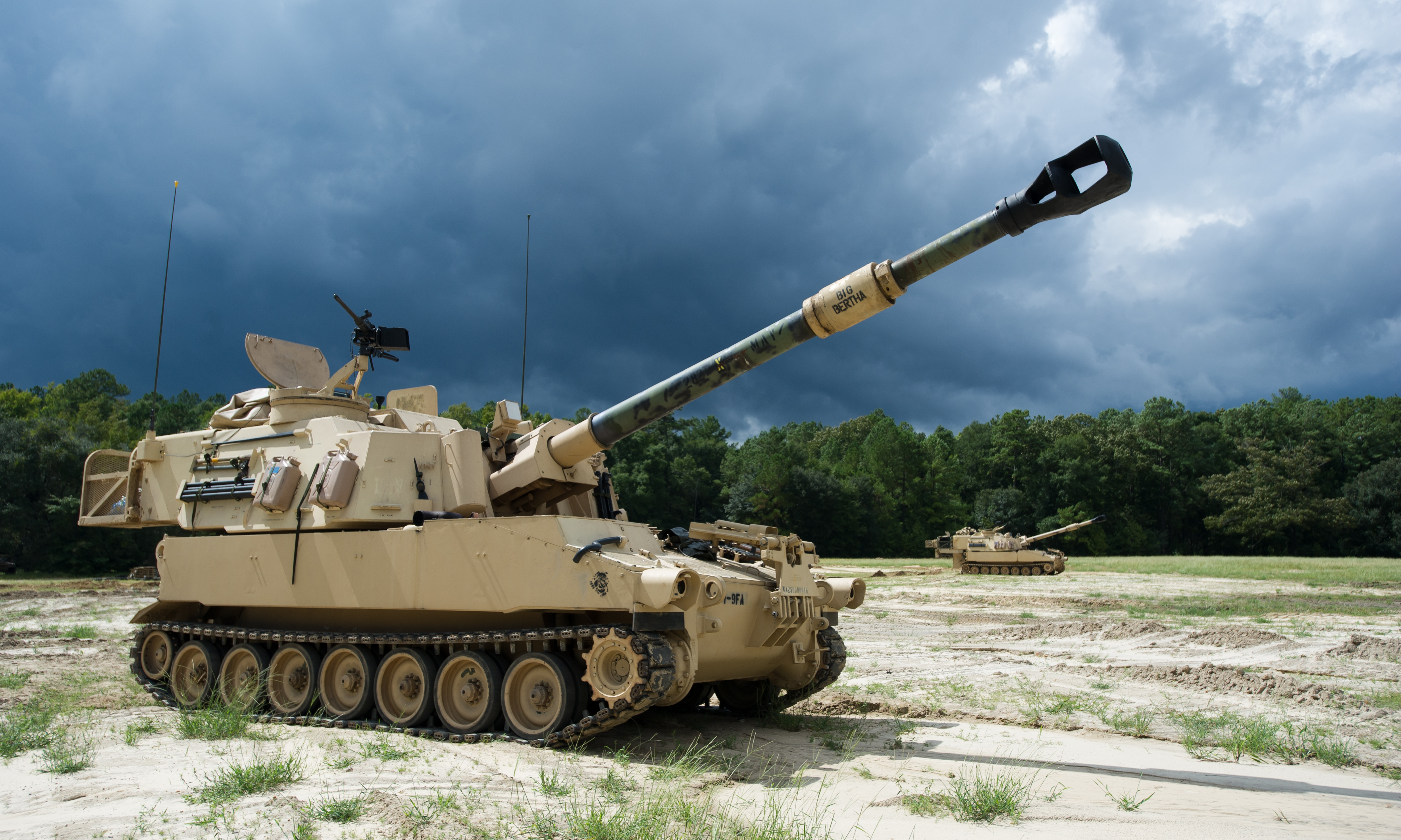 M109A6 Paladins from Battery B, 1st Battalion, 9th Field Artillery Regiment “Battlekings”, 2nd Armored Brigade Combat Team, 3rd Infantry Division, sit ready to fire their Gunnery Table VI here, Sept. 11. The Battlekings’ B Battery just completed Paladin GT VI crew qualifications. Unique to this gunnery is the fact that it this will be the last rounds fired by the Battlekings for the foreseeable future as they are slated to inactivate in the very near future. (U.S. Army Photo by Staff Sgt. Richard Wrigley 2nd ABCT, 3rd ID, Public Affairs NCO)